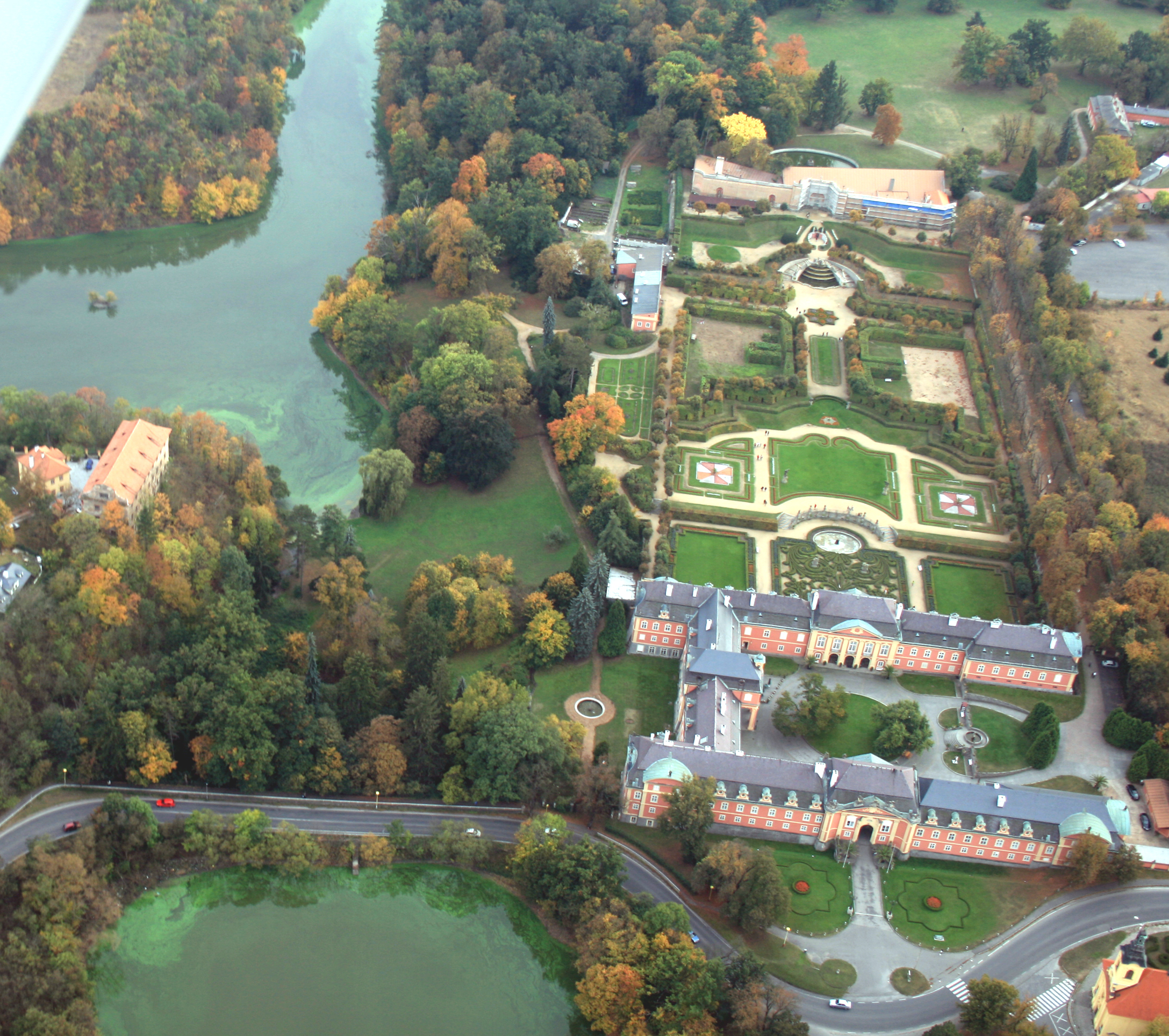 Air photo of Dobříš Castle, Czech Republic.